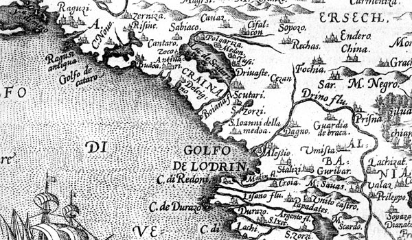 Part of map of Abraham Ortelius (1528-1598) from the sixteenth century.